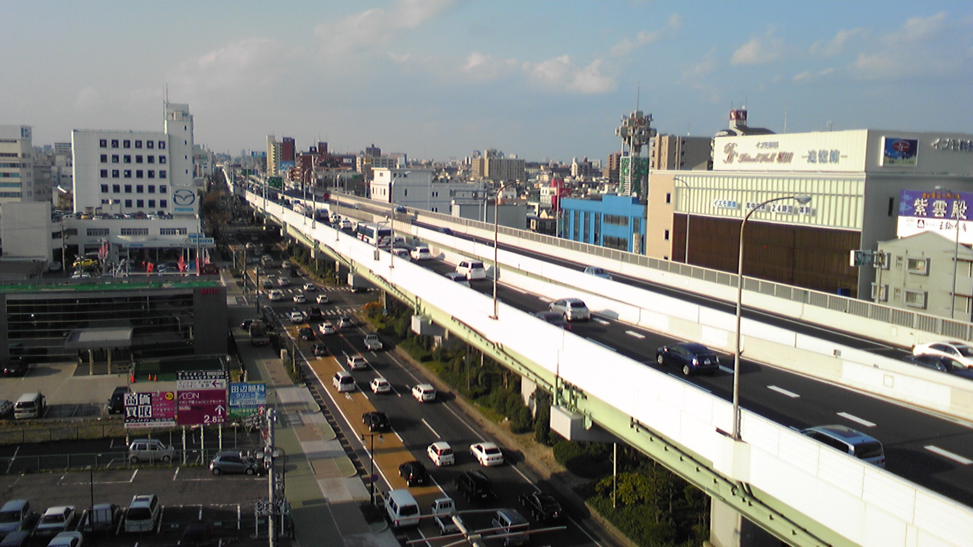 NagoyaExpressway Odaka route in Horita dir.